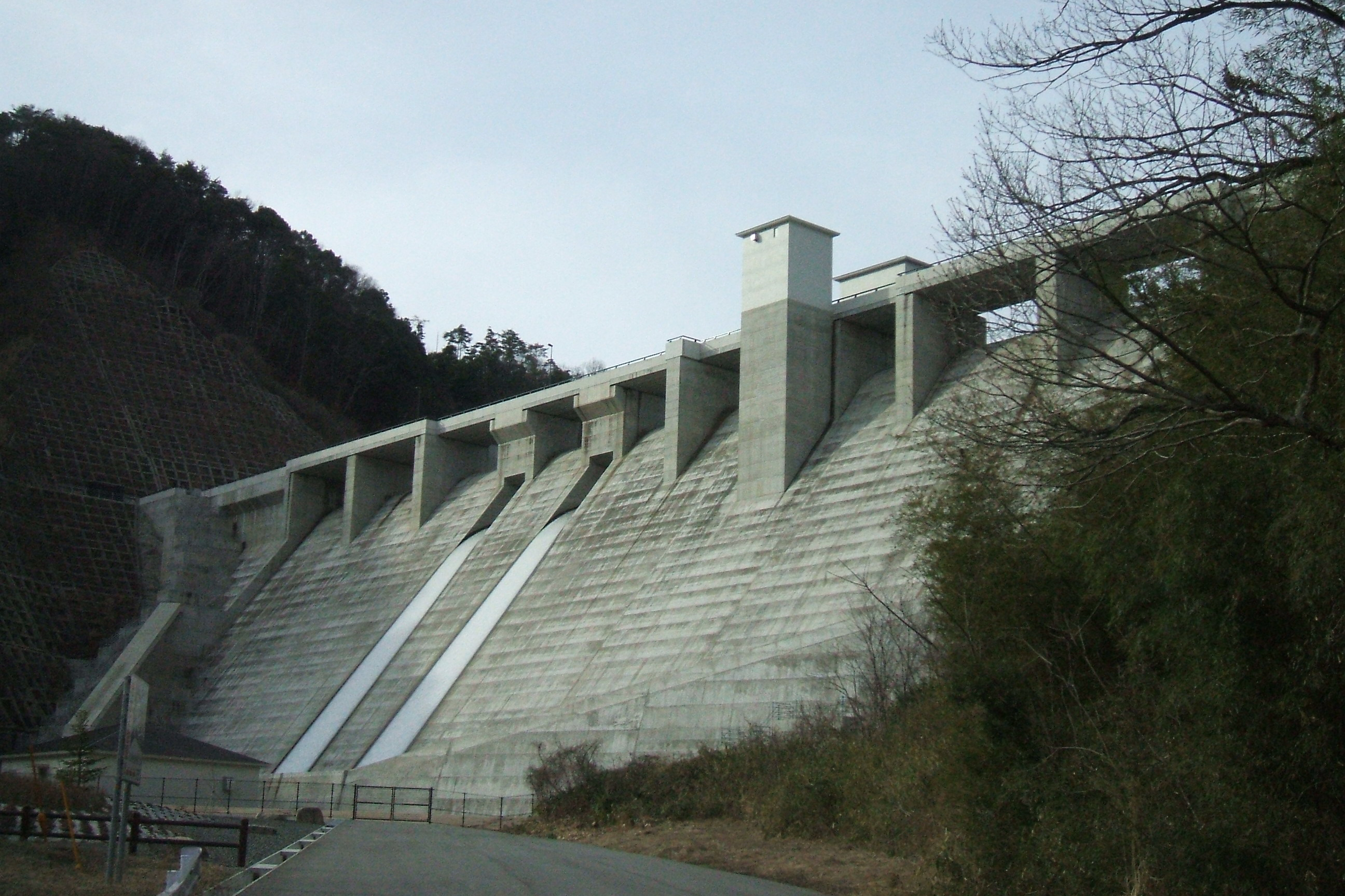 Fukutomu Dam in Higashi Hiroshima city.